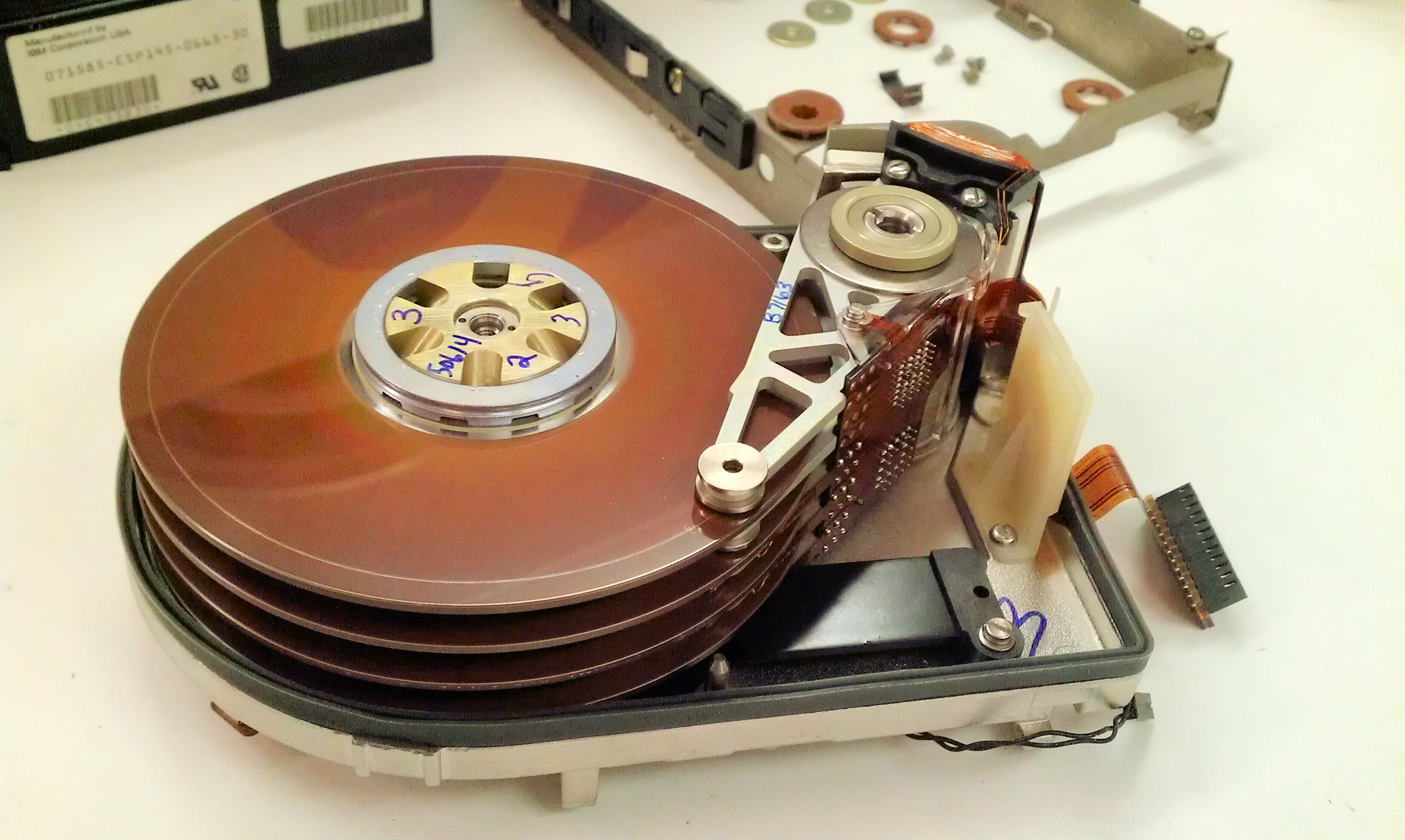 Side view of an opened IBM 0665-30 hard disk drive, circa 1985, showing read arms and circuitry.